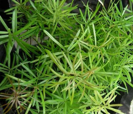 Sprenger's_Asparagus